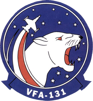 Insignia of the U.S. Navy Strike Fighter Squadron 131 (VFA-131) "Wildcats". The insignia was approved on 26 January 1984.